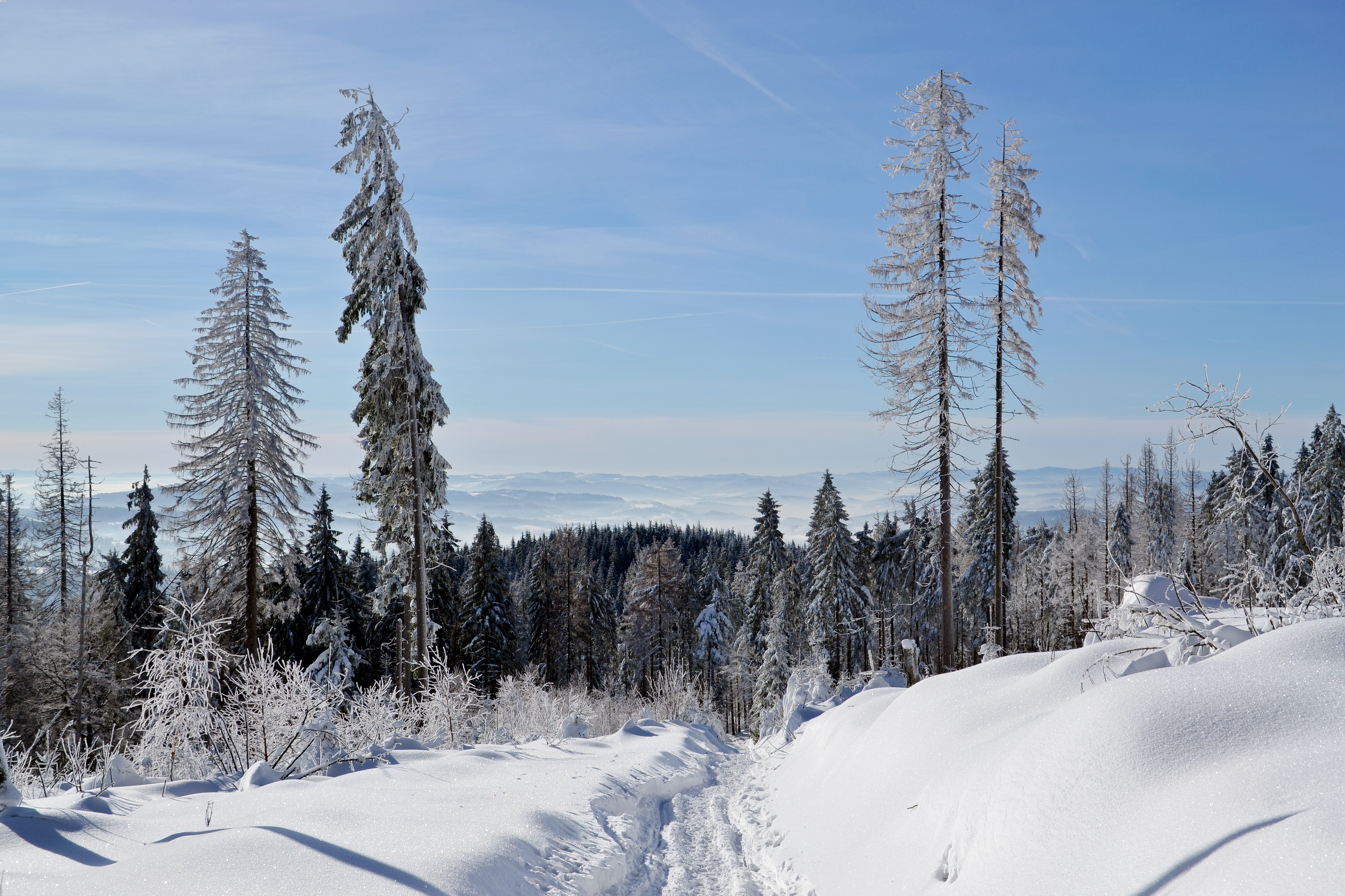 Silesian Beskids - hiking trial to Barania Góra peak